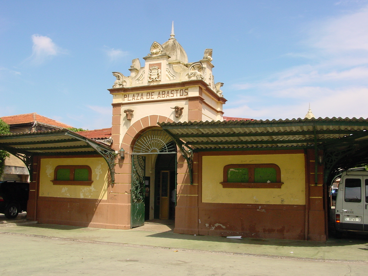 Food market built in 1912